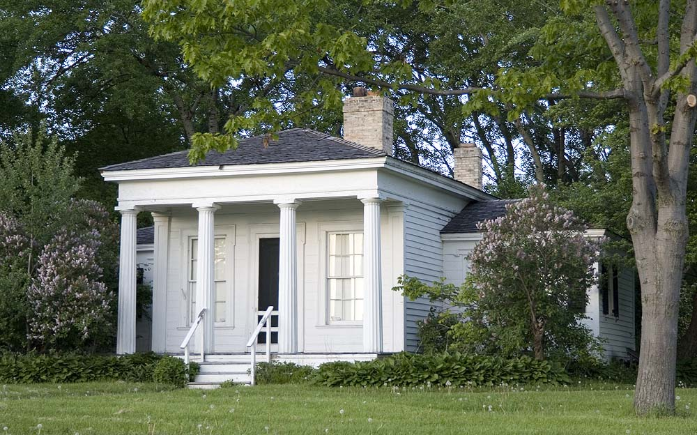 The Benjamin Church House, National Historic Registered Place, Shorewood, Wisconsin